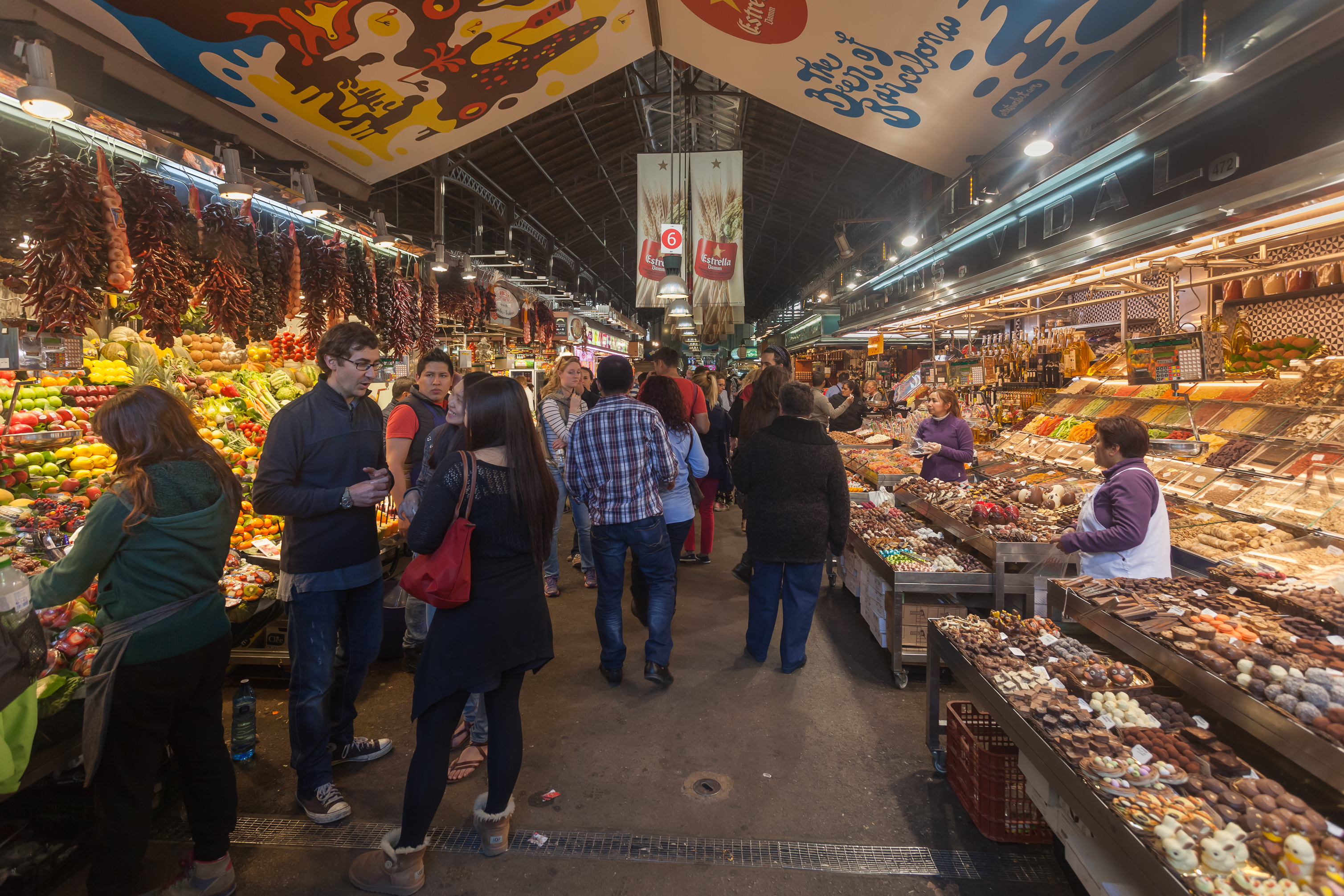 The Mercat de Sant Josep de la Boqueria, Barcelona